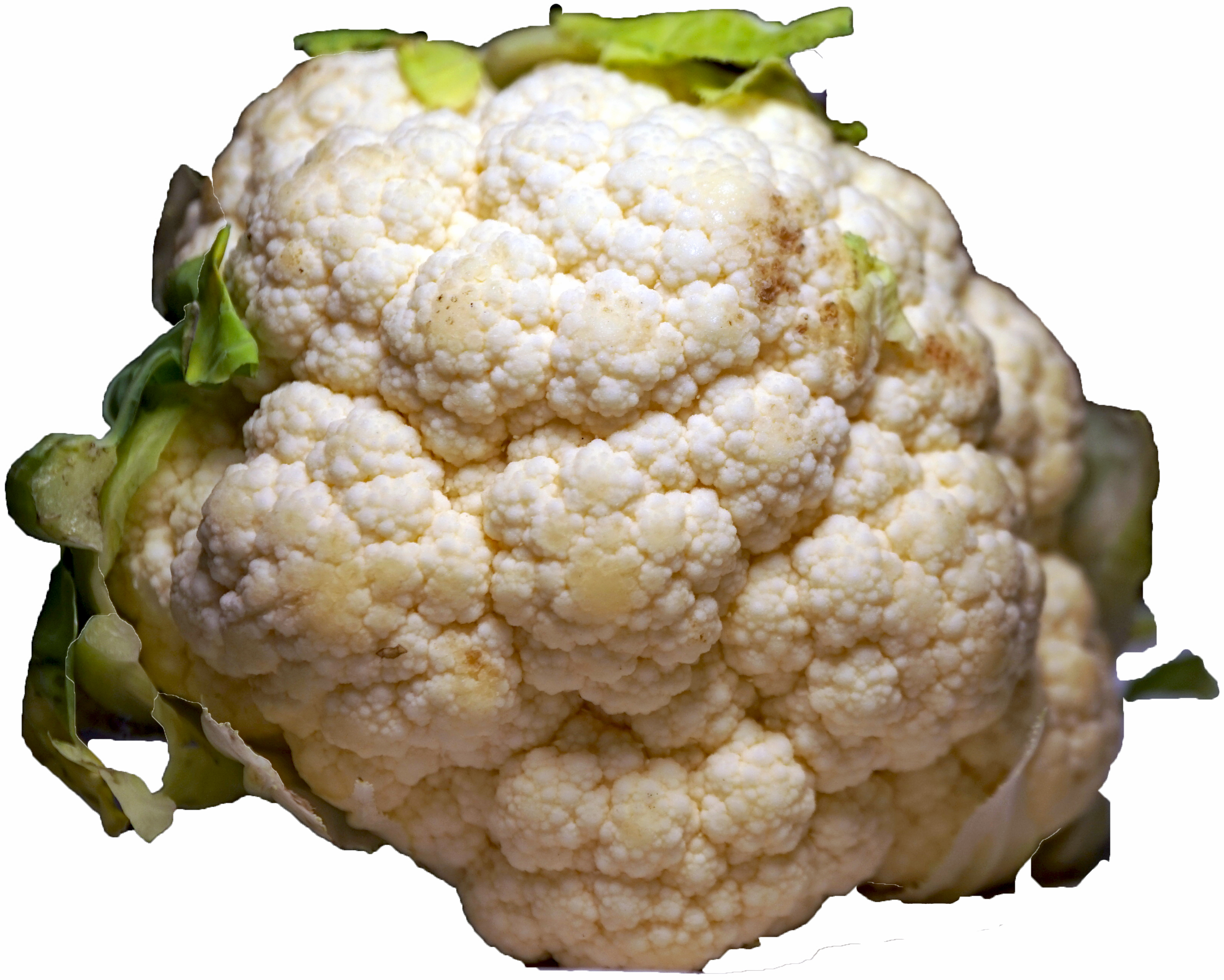 Cauliflower